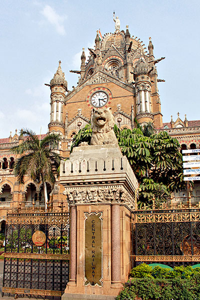 Central Railway Headquarters entrance gate at Chhatrapati Shivaji Terminus (formerly Victoria Terminus)